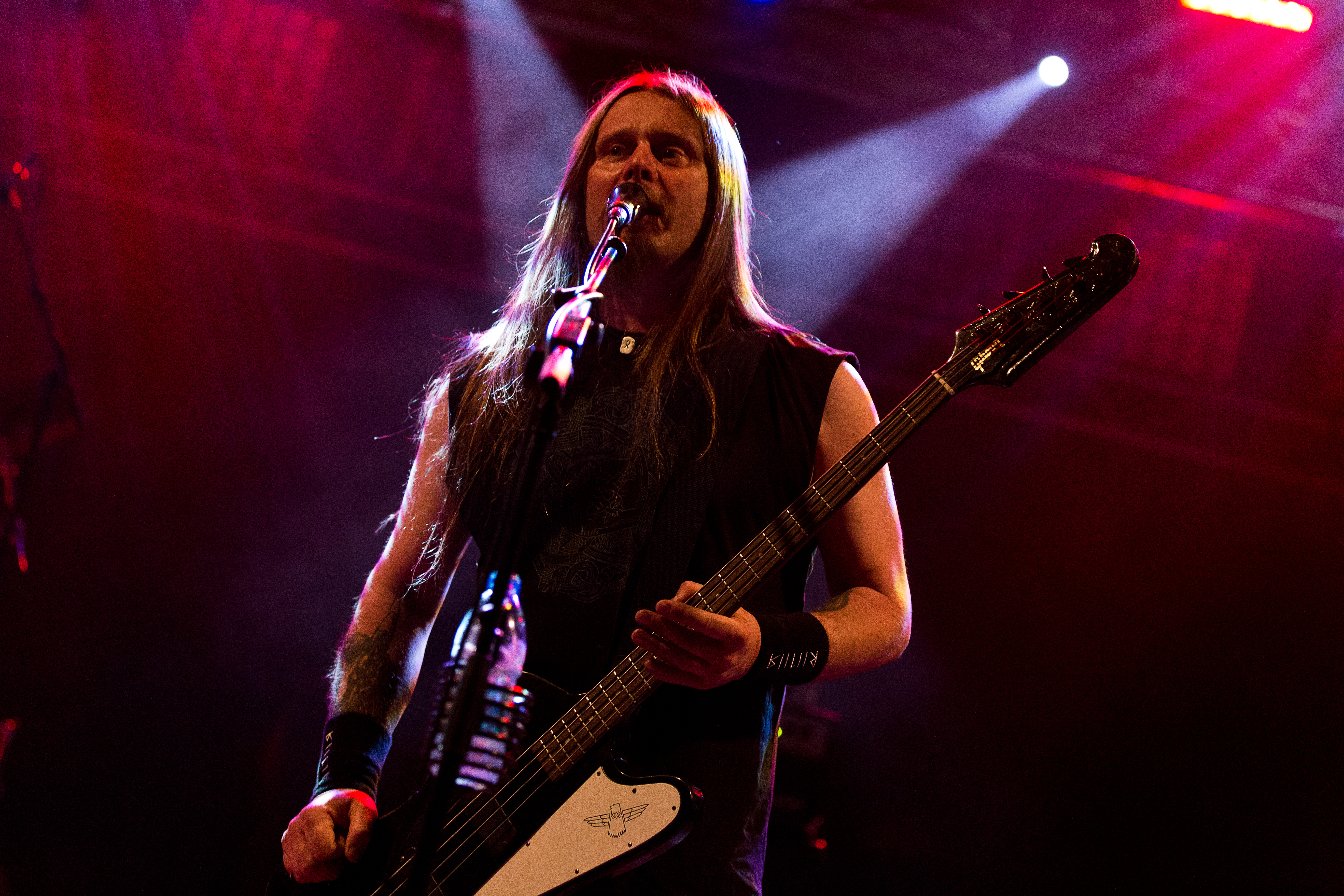 The Norwegian viking/progressive metal band Enslaved at the 25. Wave-Gotik-Treffen 2016 in Leipzig/Germany.